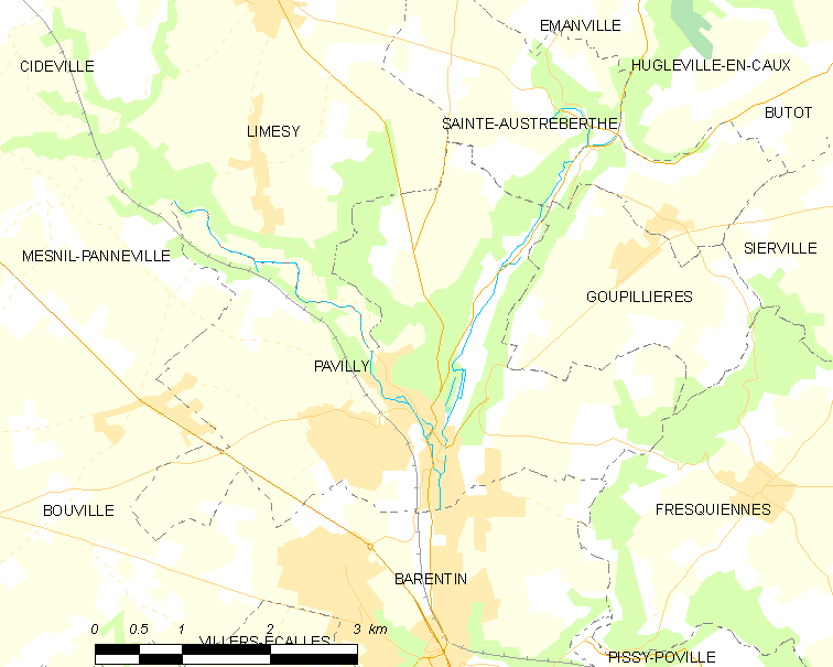 Map of French municipality Pavilly